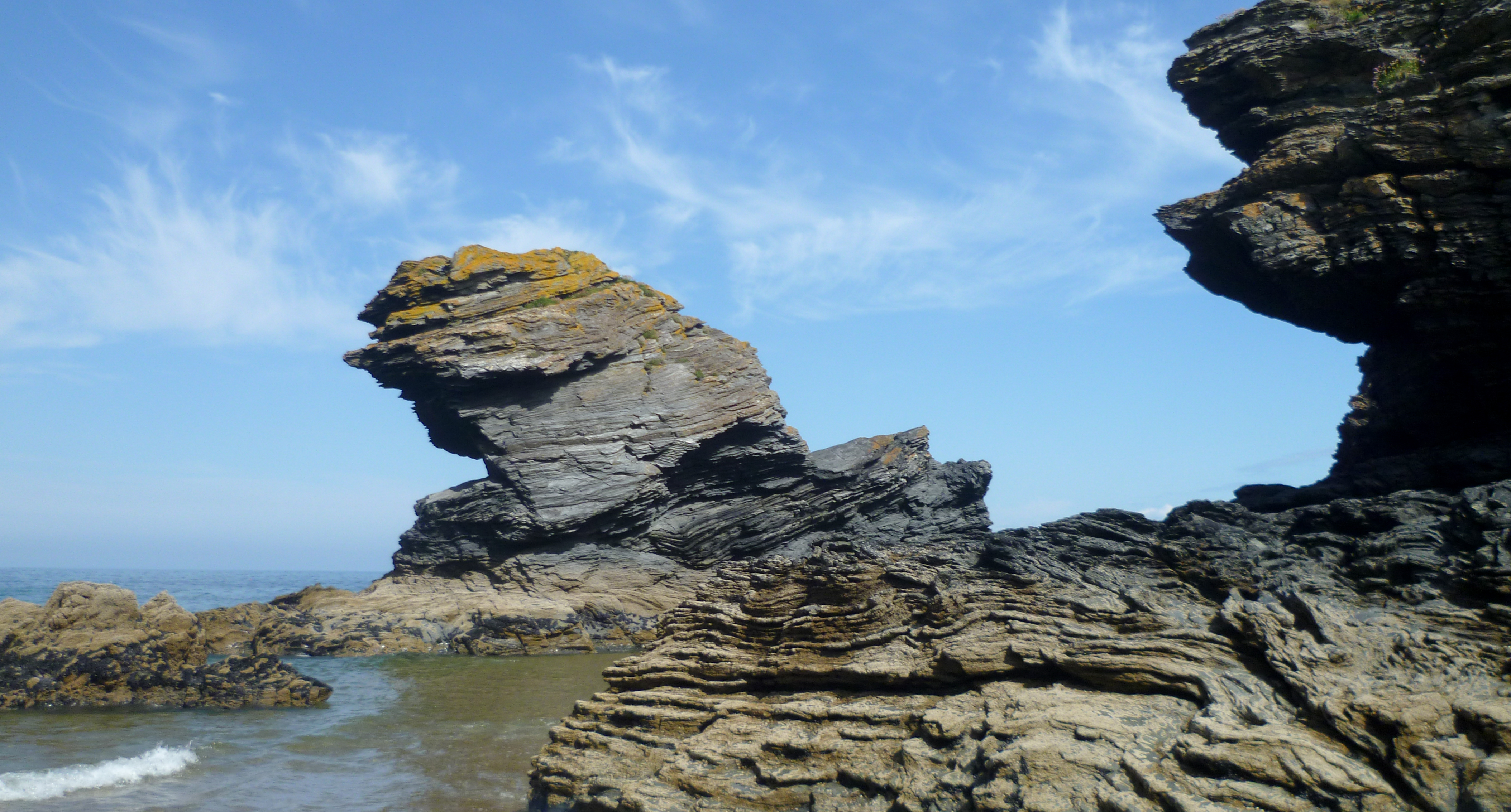 The Carreg Bica rock on the seashore in Llangrannog, Wales